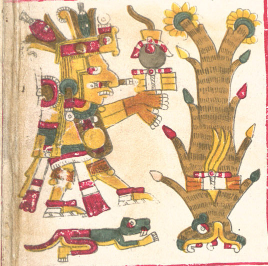 A drawing of Cinteotl, one of the deities described in the Codex Borgia